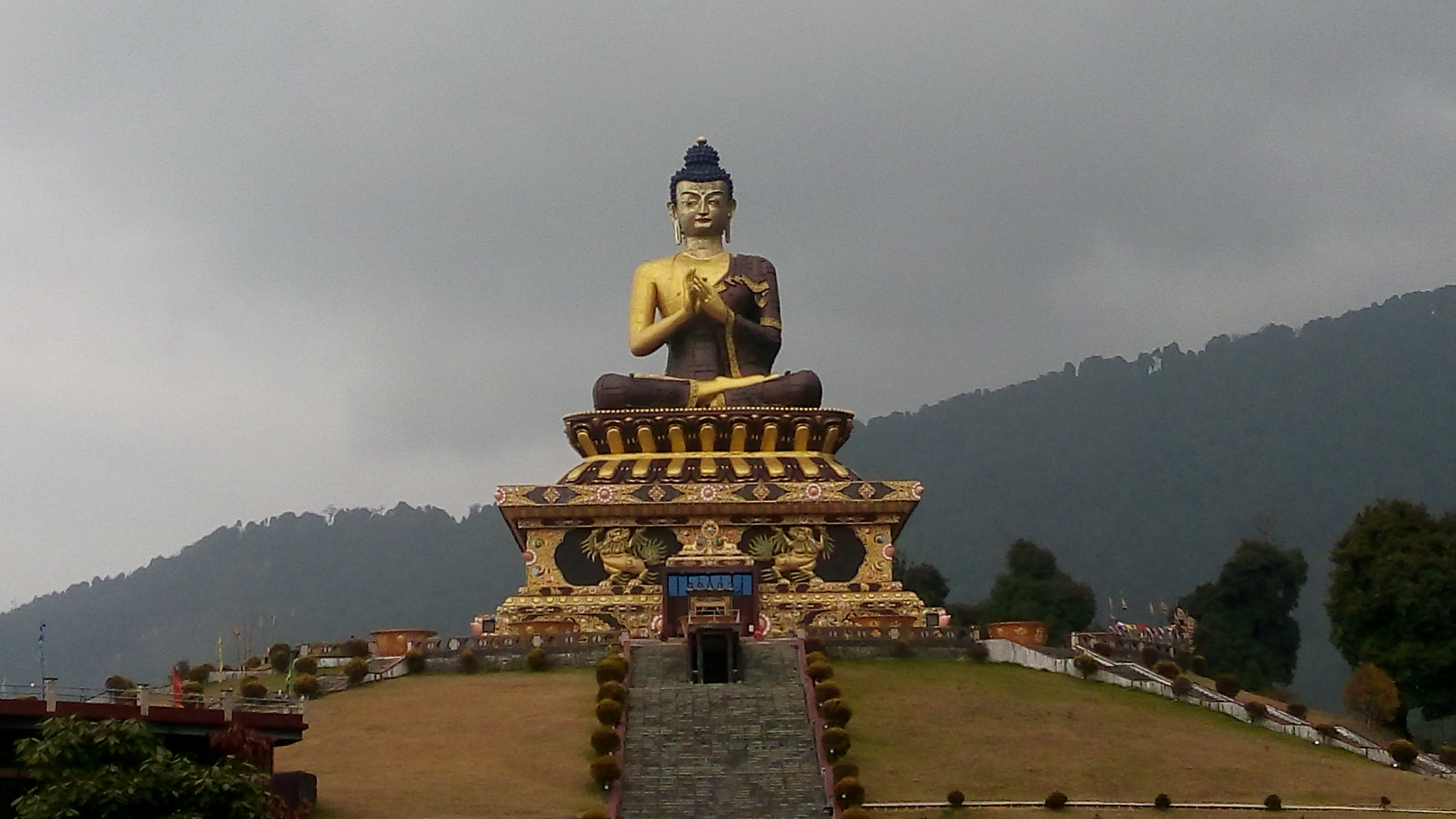 Namchi Monastery is a Buddhist monastery in Sikkim, northeastern India, The biggist Buddist Monestry with a ver big Buddha Statue in Northeast India.